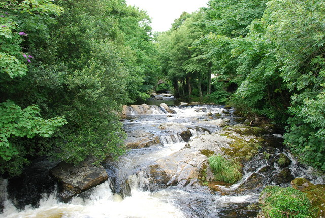 The River Erme looking upstream from the second Road Bridge